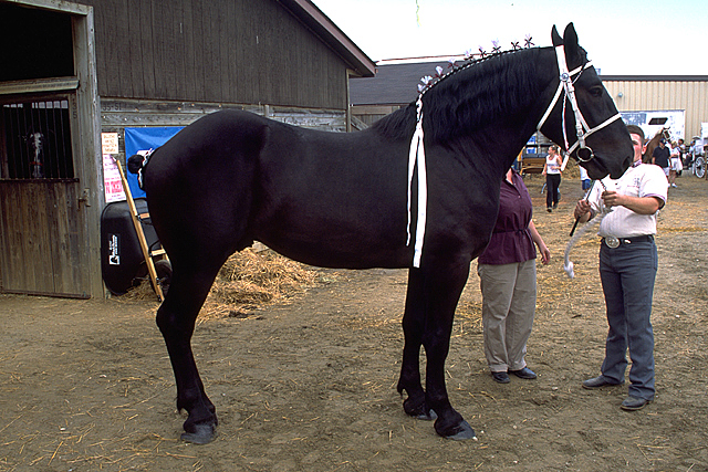 Percheron draft horse Source: USDA